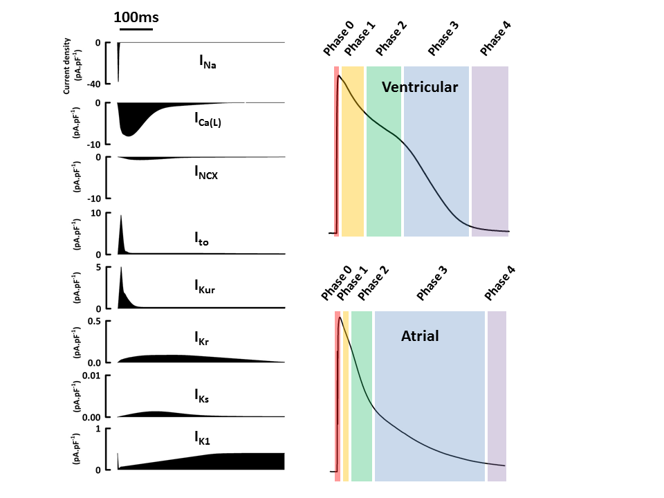 Representative action potentials form atrial and ventricular cardiomyocytes with illustrative ionic currents